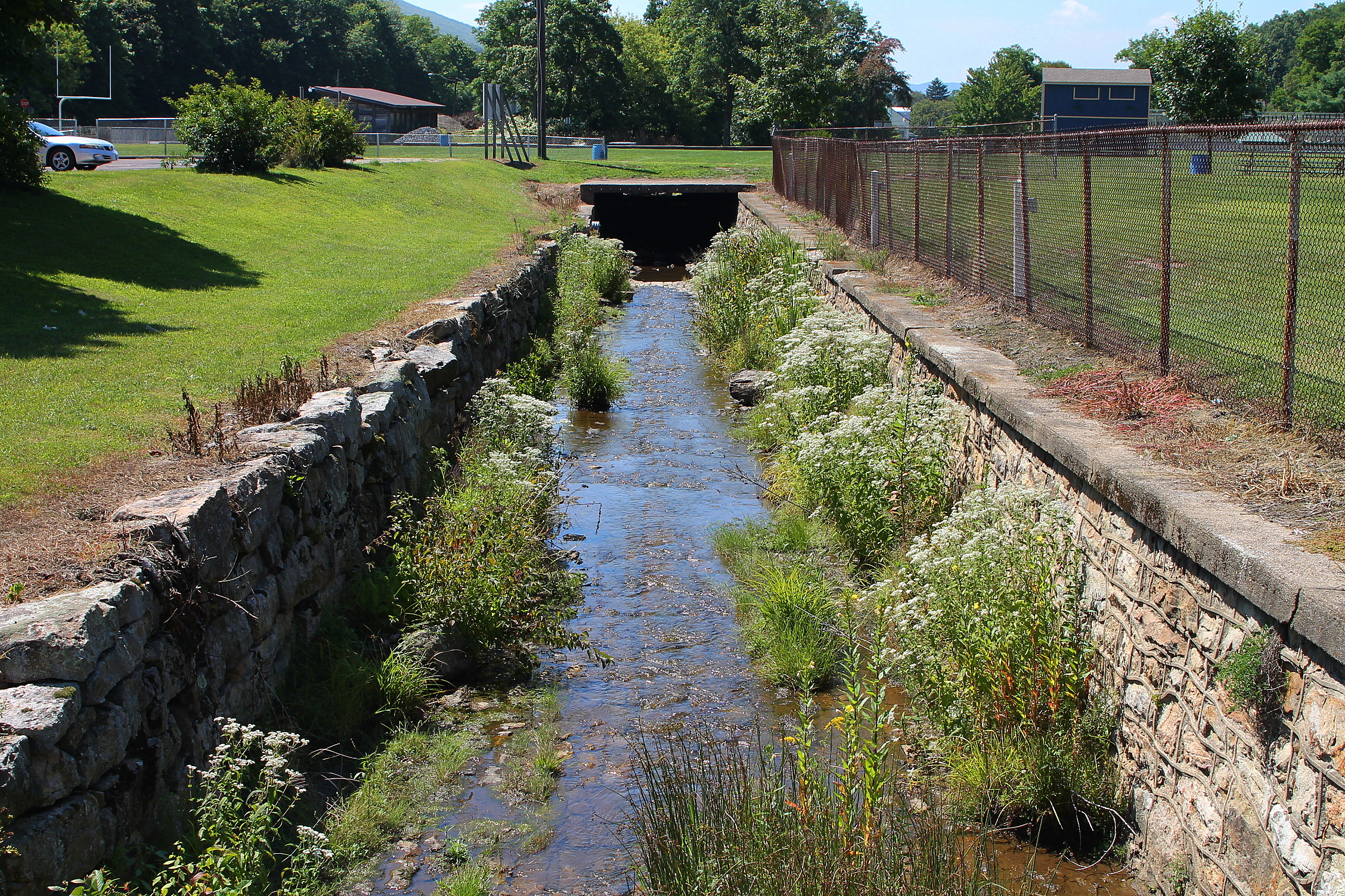 Zerbe Run near its headwaters in Trevorton looking downstream